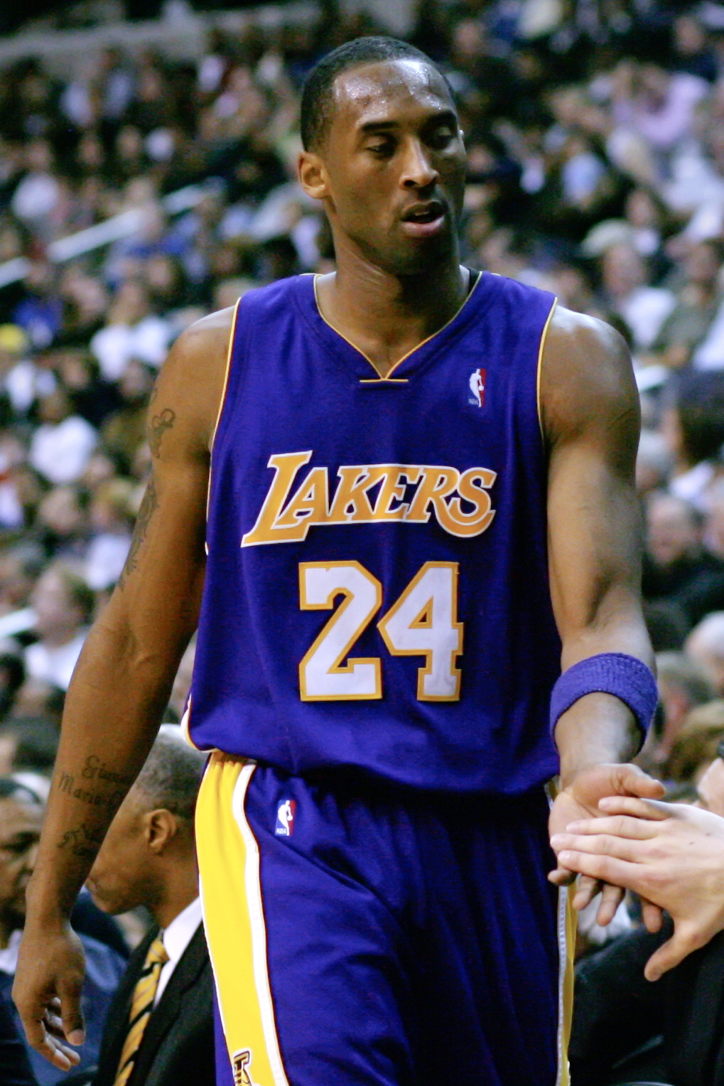 Kobe Bryant subs out vs the Washington Wizards